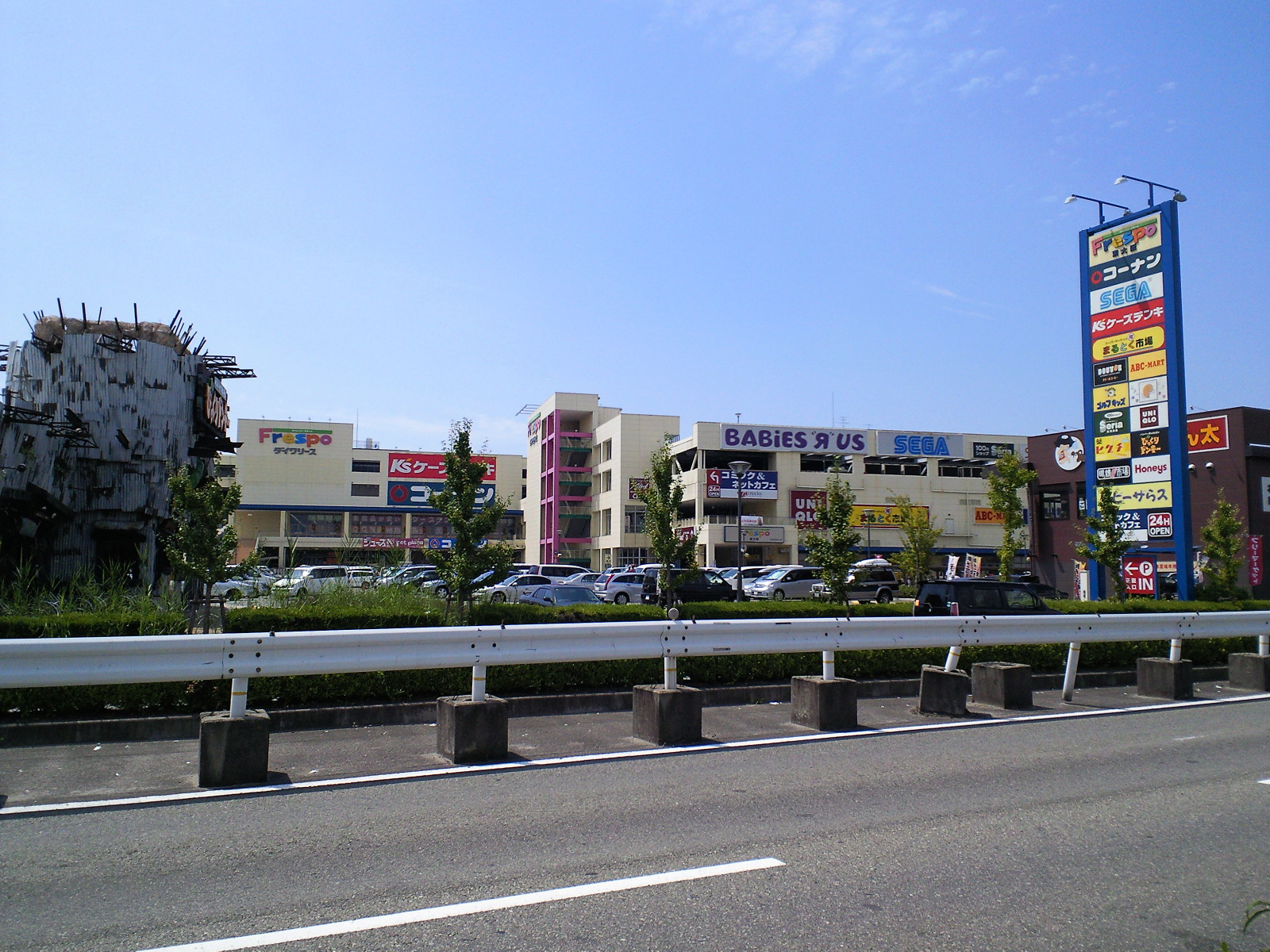 FrieSpo Higashiosaka